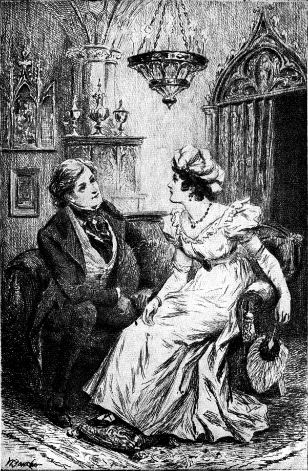 Title page of Honoré de Balzac's Massimilla Doni. "Emilio, say, what letter was that you threw into the canal?"